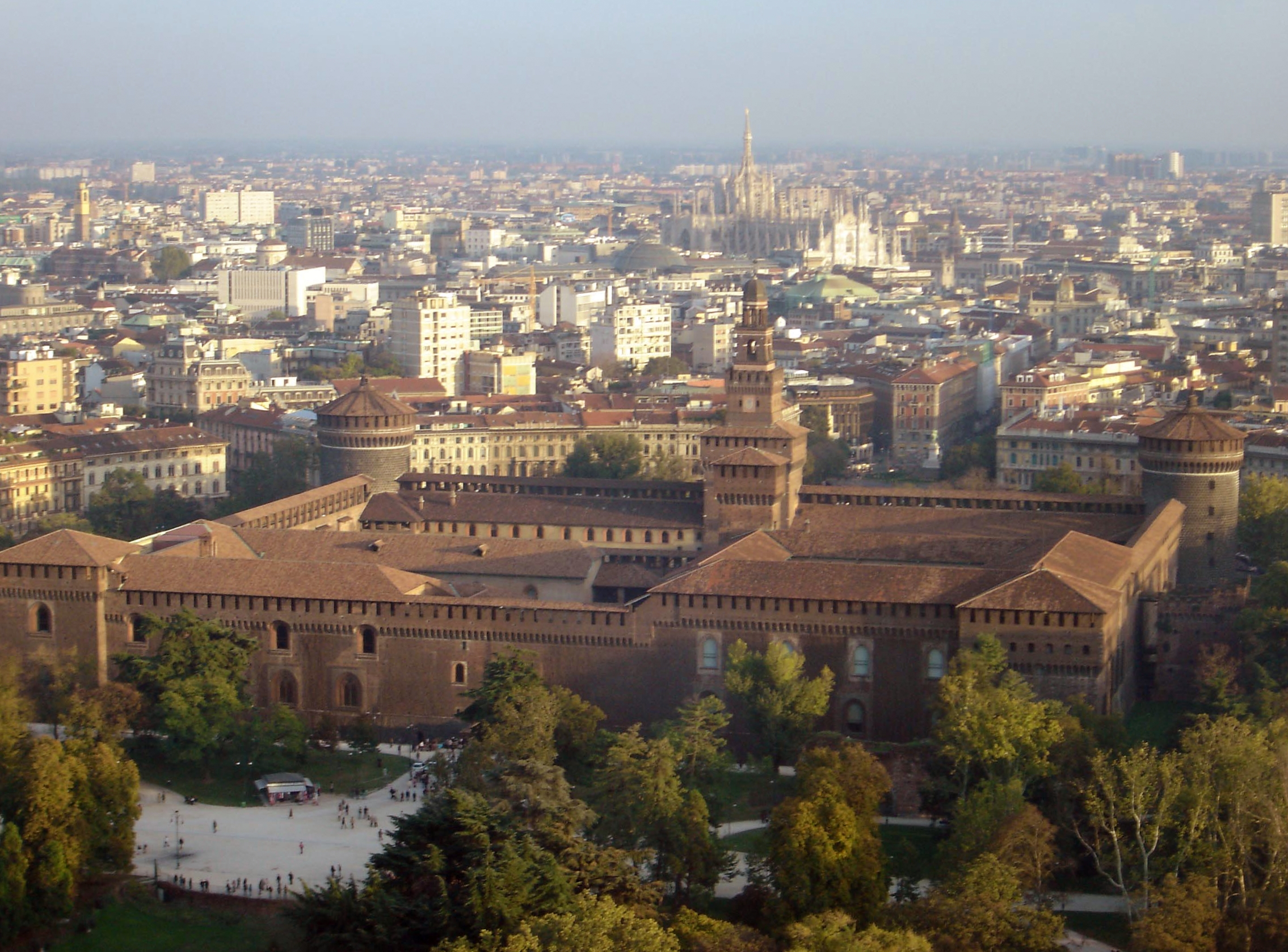 Castello sforzesco and Milan viewed by Branca tower